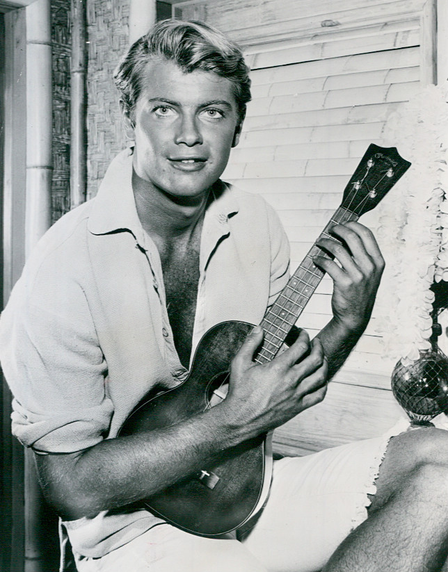 Photo of Troy Donahue in Hawaiian Eye. Donahue joined the cast when Anthony Eisley left the show.